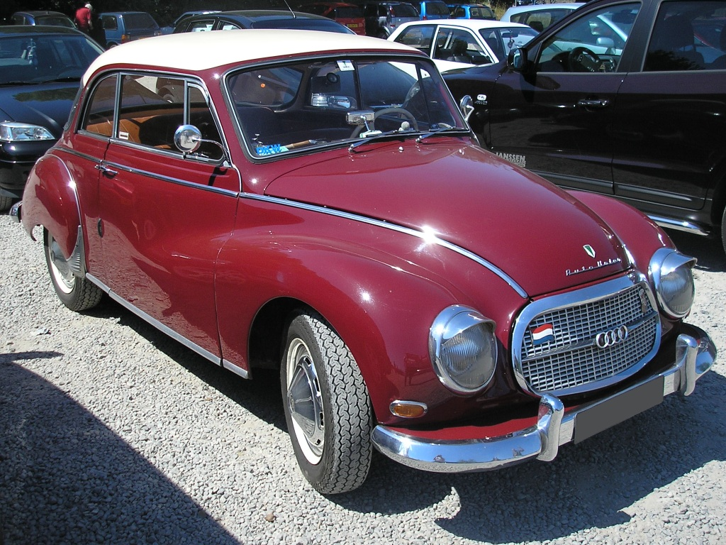 Auto Union (DKW) 1000. Dutch license registration says: Issued 1965-11-18, Cylinders: 3, Net weight: 890, Original colors: Black and white. Location: Limburg, Netherlands Keywords: Auto Union, DKW, Vintage, Classic, Klassieker